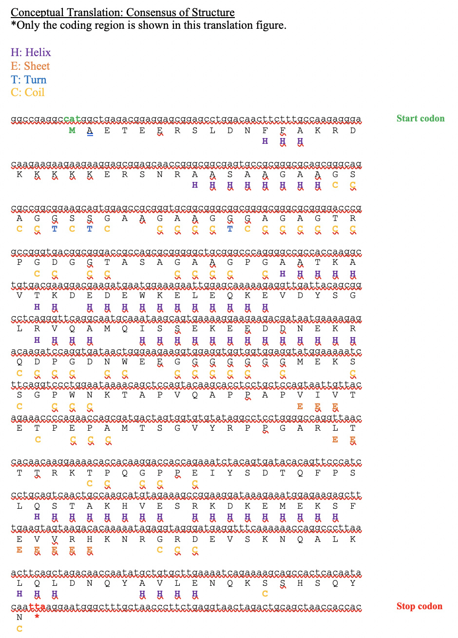 Predicted secondary structure of CDV3 in the form of a conceptual translation.